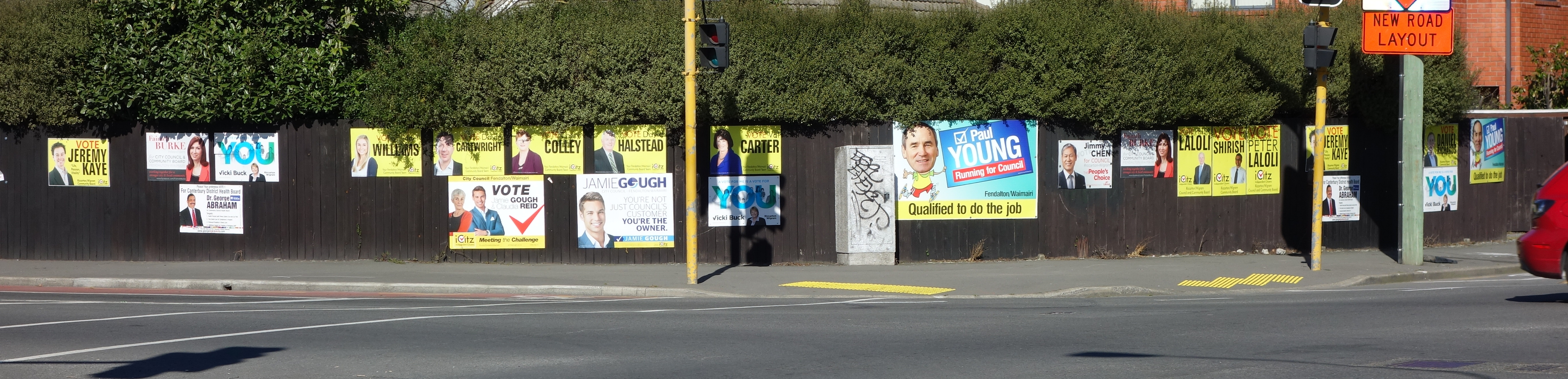 Christchurch local election, 2013.